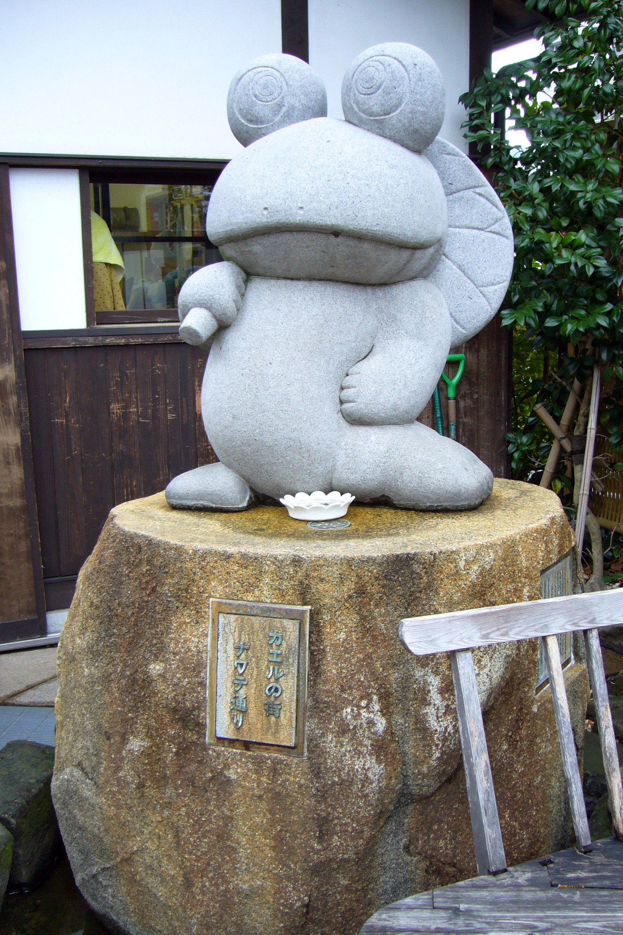 Nawate shop street in Matsumoto, Nagano, Japan